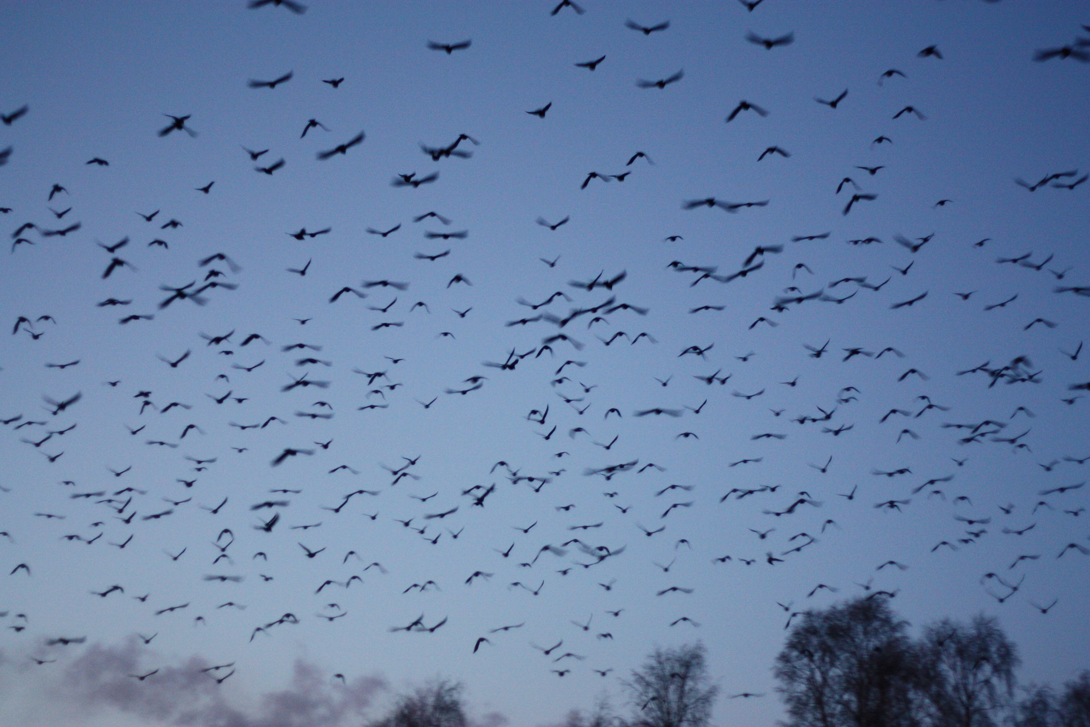 Flock of Jackdaws in Tuira, Oulu, Finland.